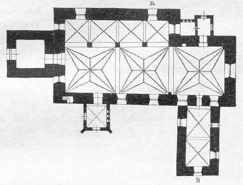 Map of the Franciscan convent church in Raumo (Rauma in Finnish), Finland.